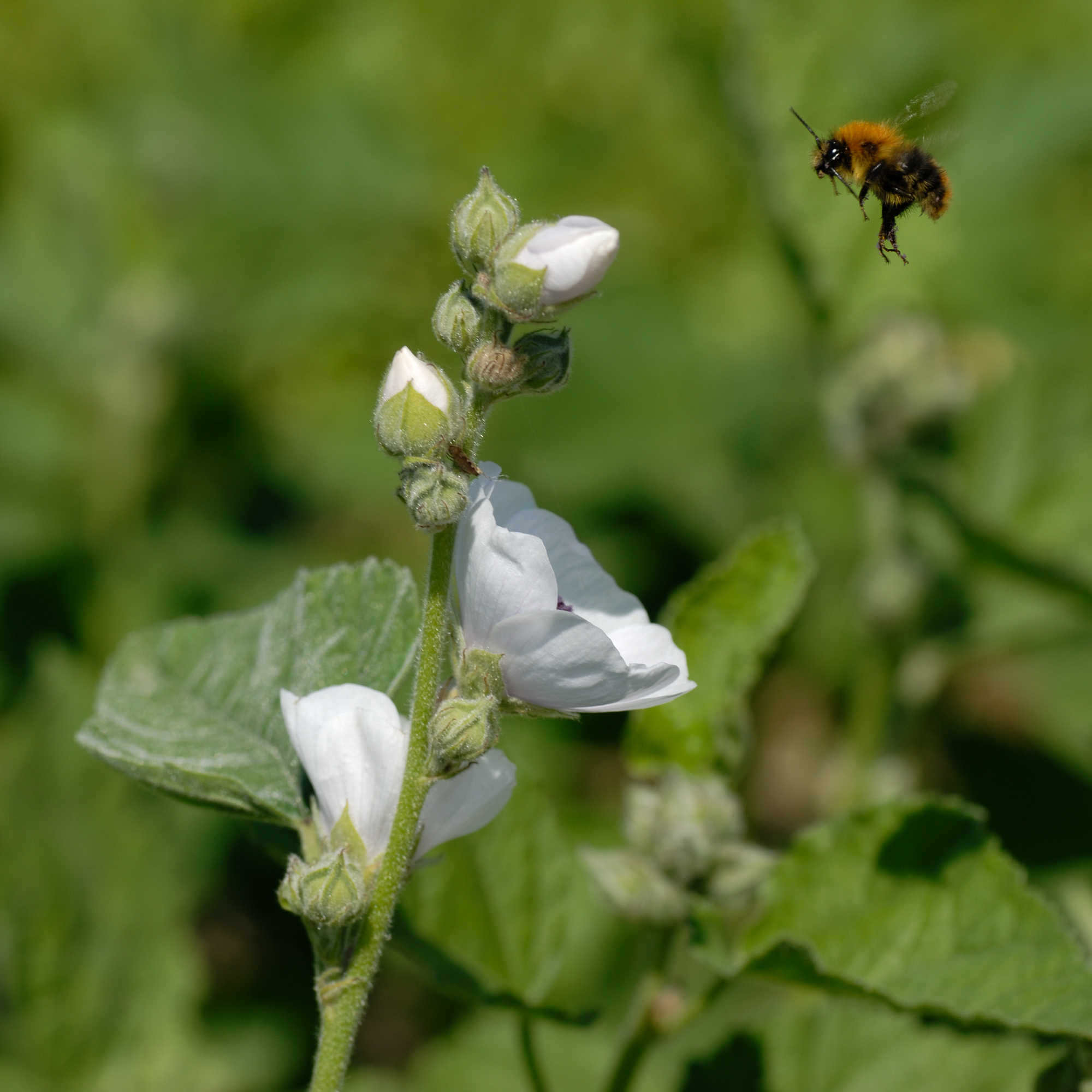 This image shows the flower of a Common Marshmallow (Althaea officinalis).